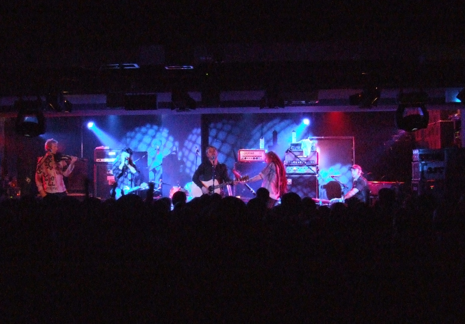 The Levellers at a concert in Prague. November 2006